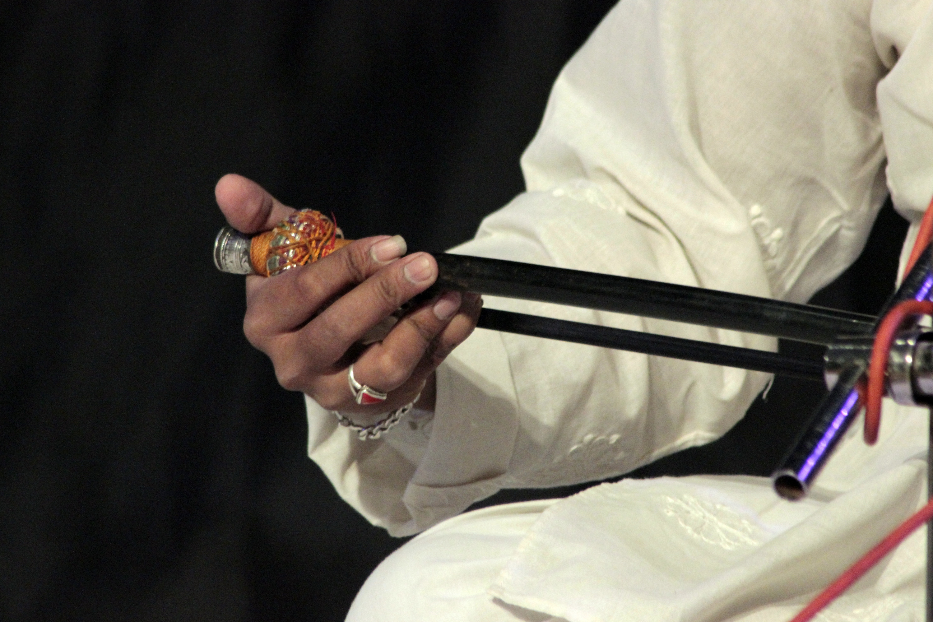 Sarngi Player in India